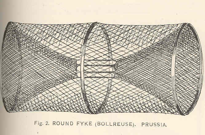 Round Fyke (Bollreuse). Prussia Subject: Fishing nets Tag: Fisheries Techniques